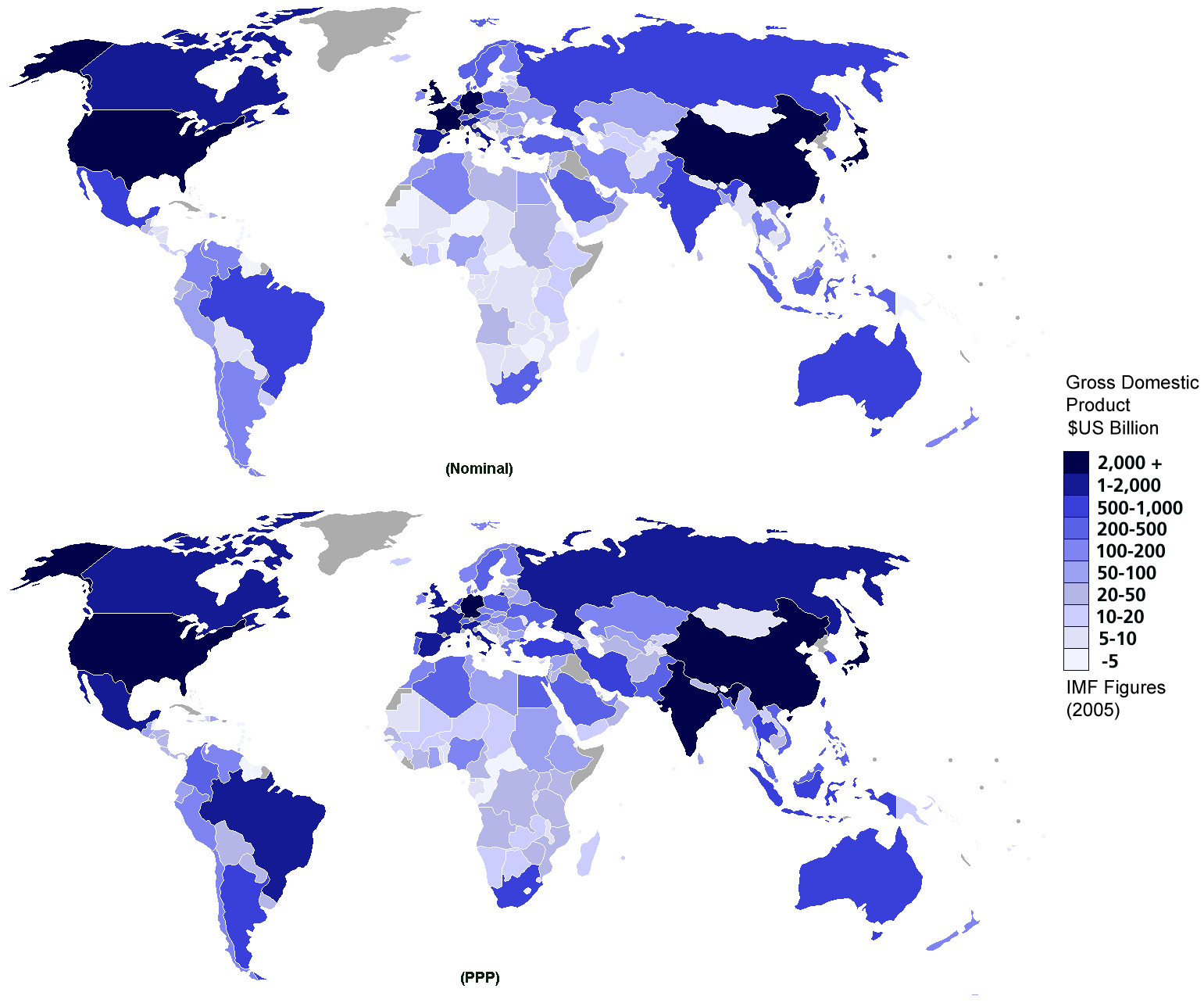 One colour scheme version of previous map. Comparison of IMF figures of GDP for 2005; top map is of nominal; bottom map is of Purchasing power parity. Numbers in billions of US dollars.